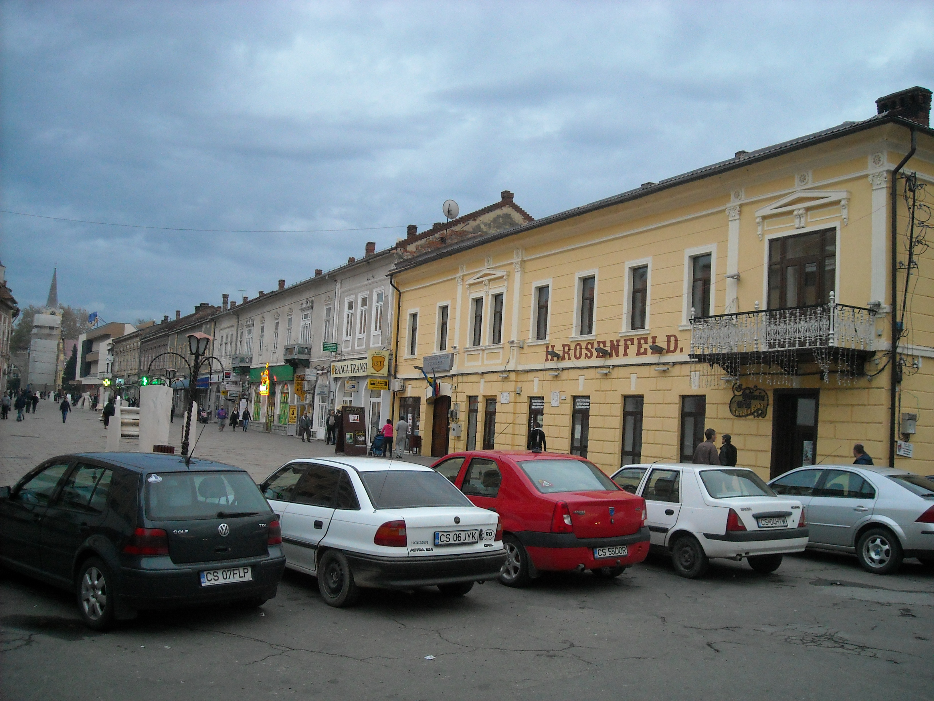 Str. Episcopiei in Caransebeș